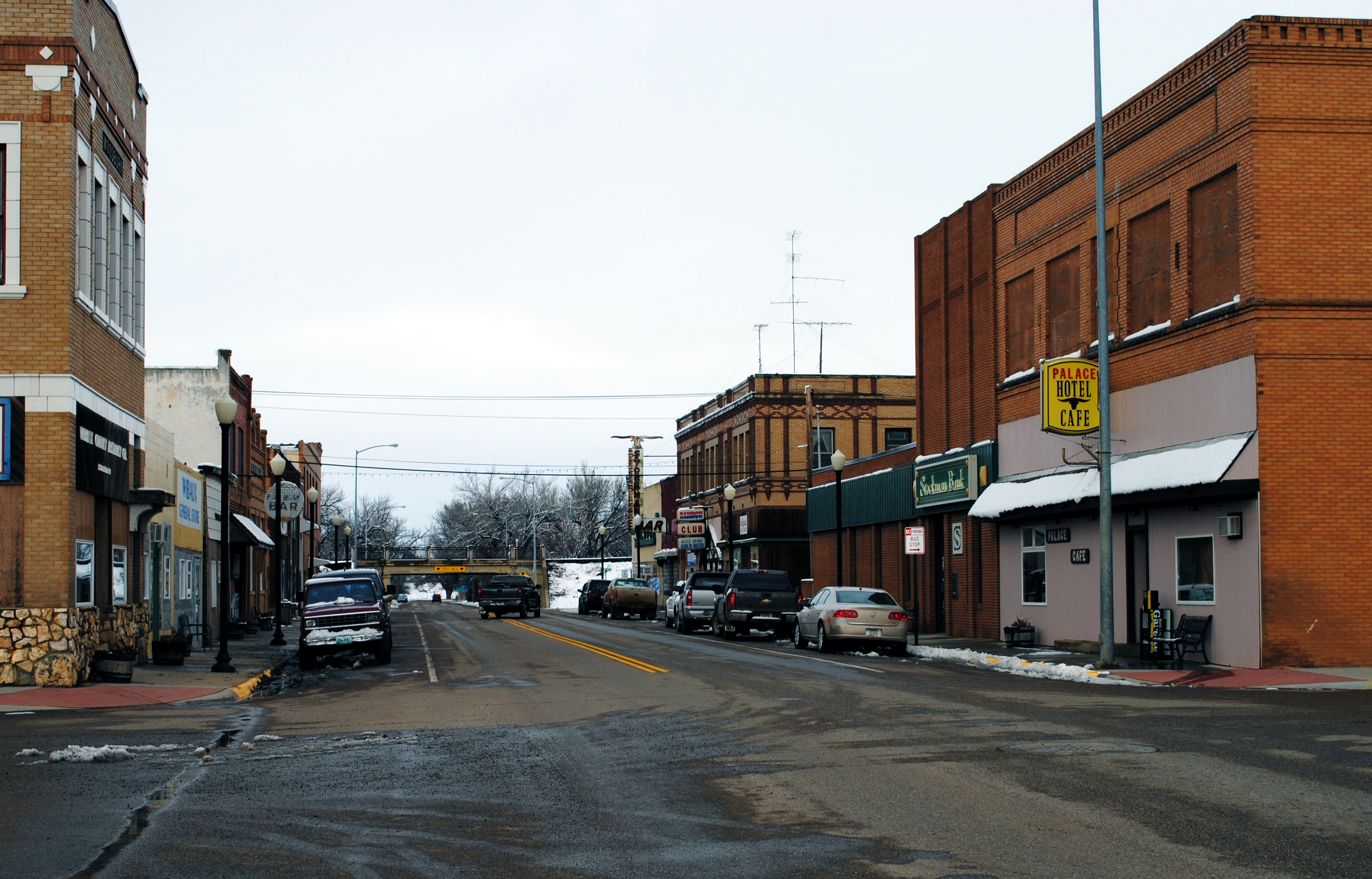 Main Street in Wibaux, MT looking north from the Wibaux County Sheriff's Office & Courthouse.